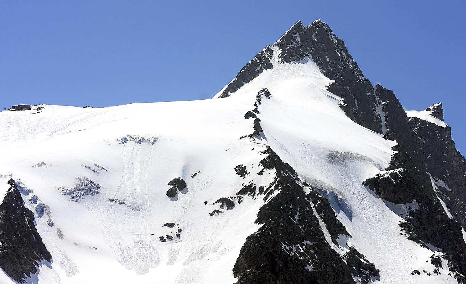 Grossglockner with Archduke Johann Hut ("eagle´s Rest") of the Kaiser-Franz-Josef heights from. June 2014